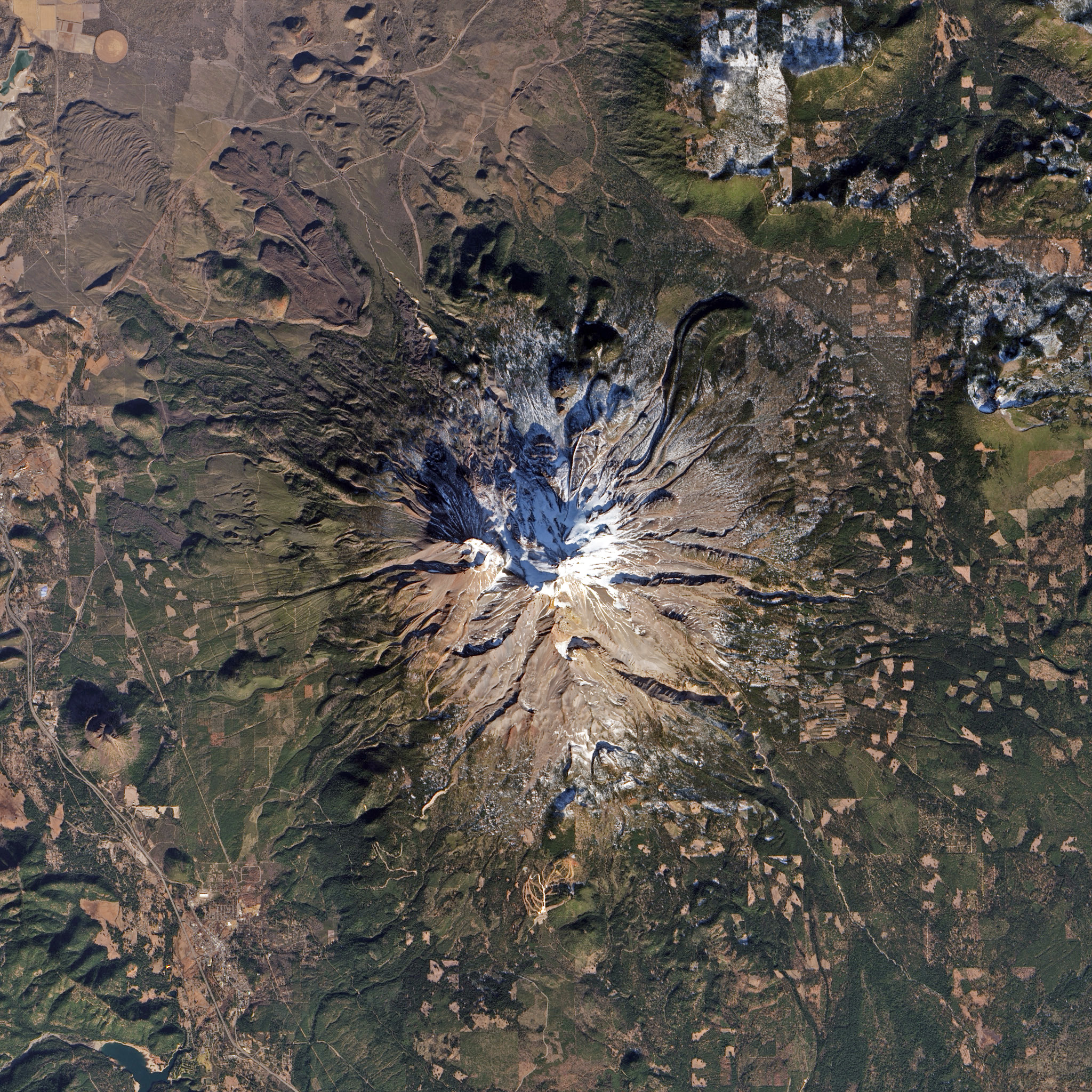 Mount Shasta, California, from Landsat 8 satellite, acquired January 4, 2014